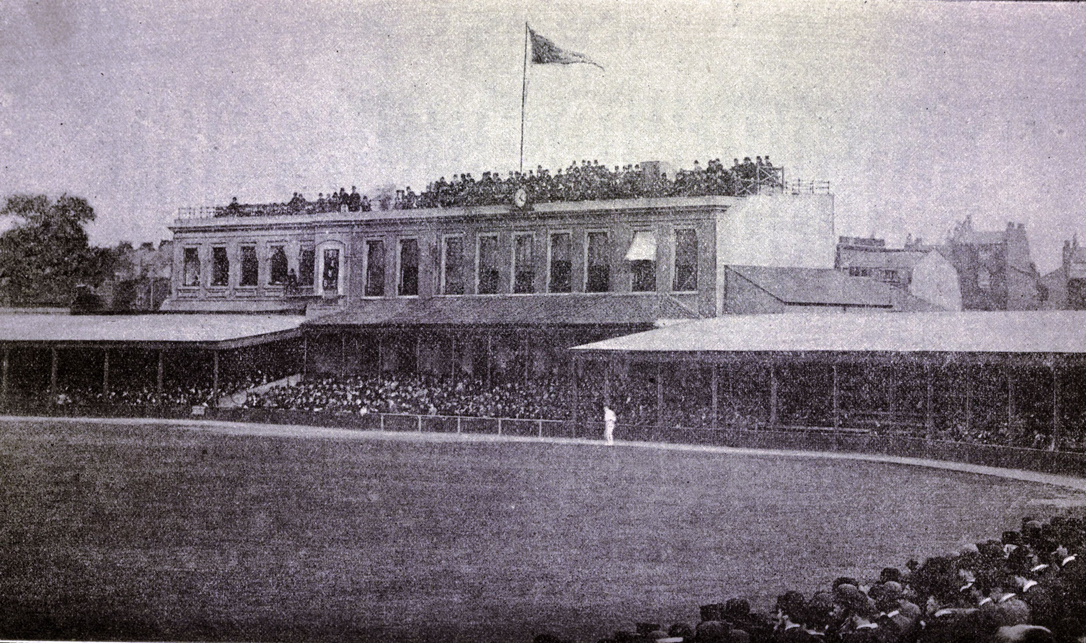 The Kennington Oval; scanned image from "Cricket", by WG Grace, 1891.